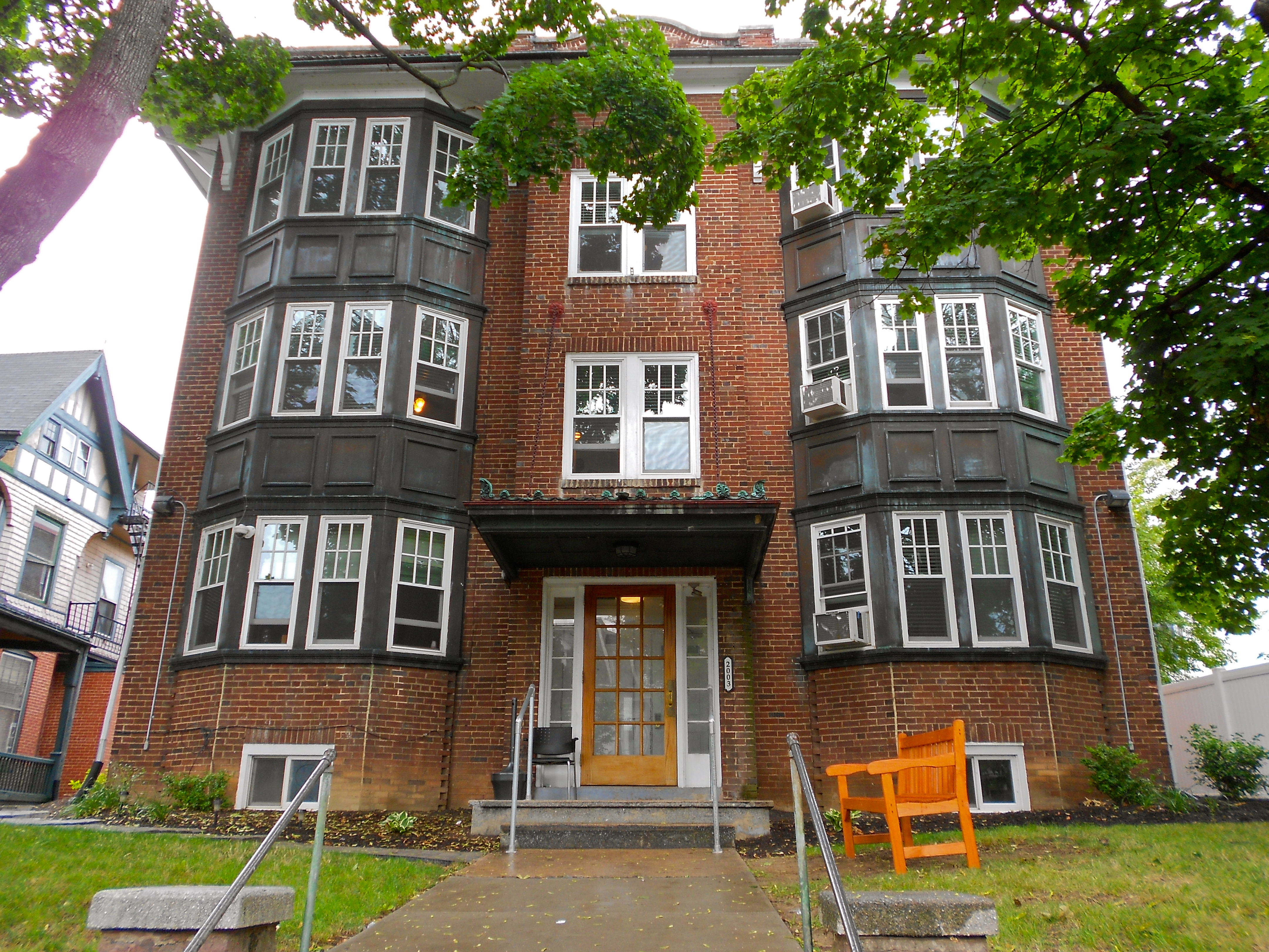 Sheffield Apartments, listed on the NRHP on April 26, 1990, at 2003 North 3rd Street, Harrisburg, Dauphin County, Pennsylvania. The house next door at 2005 is also listed.